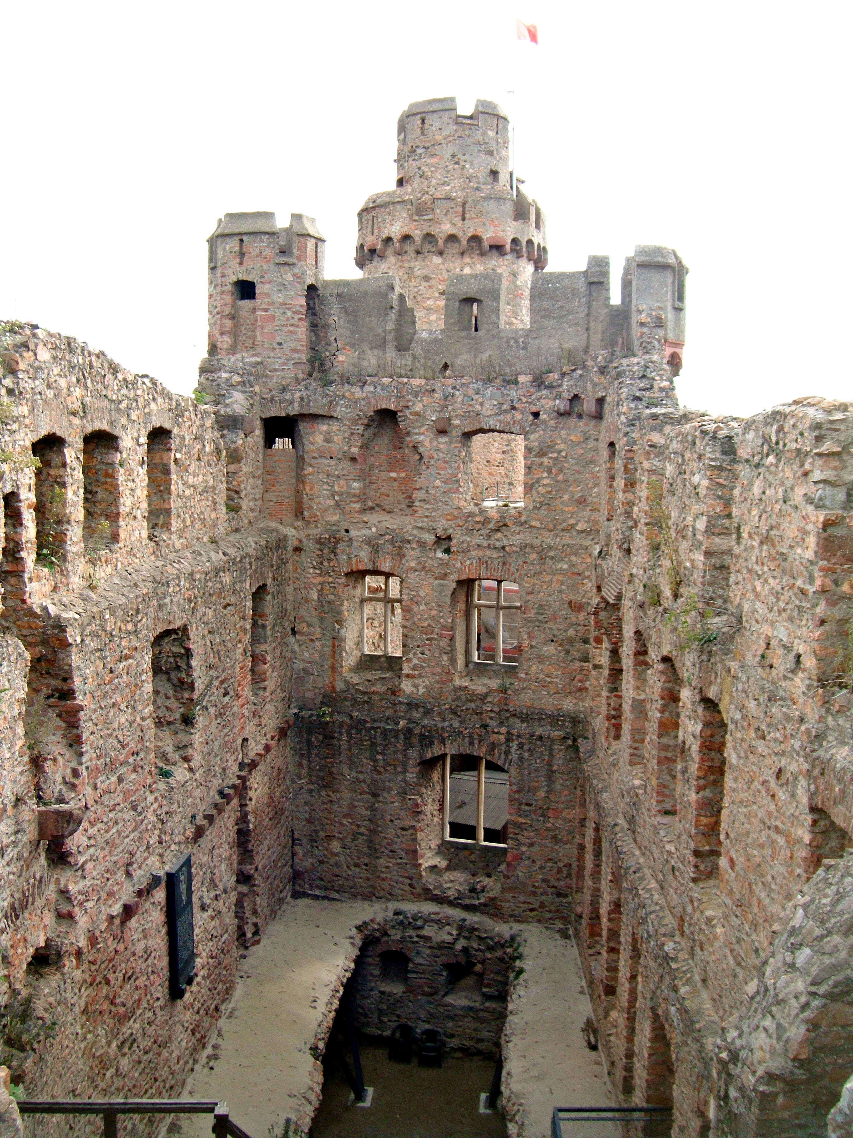 Auerbacher Schloss, Pallas innen